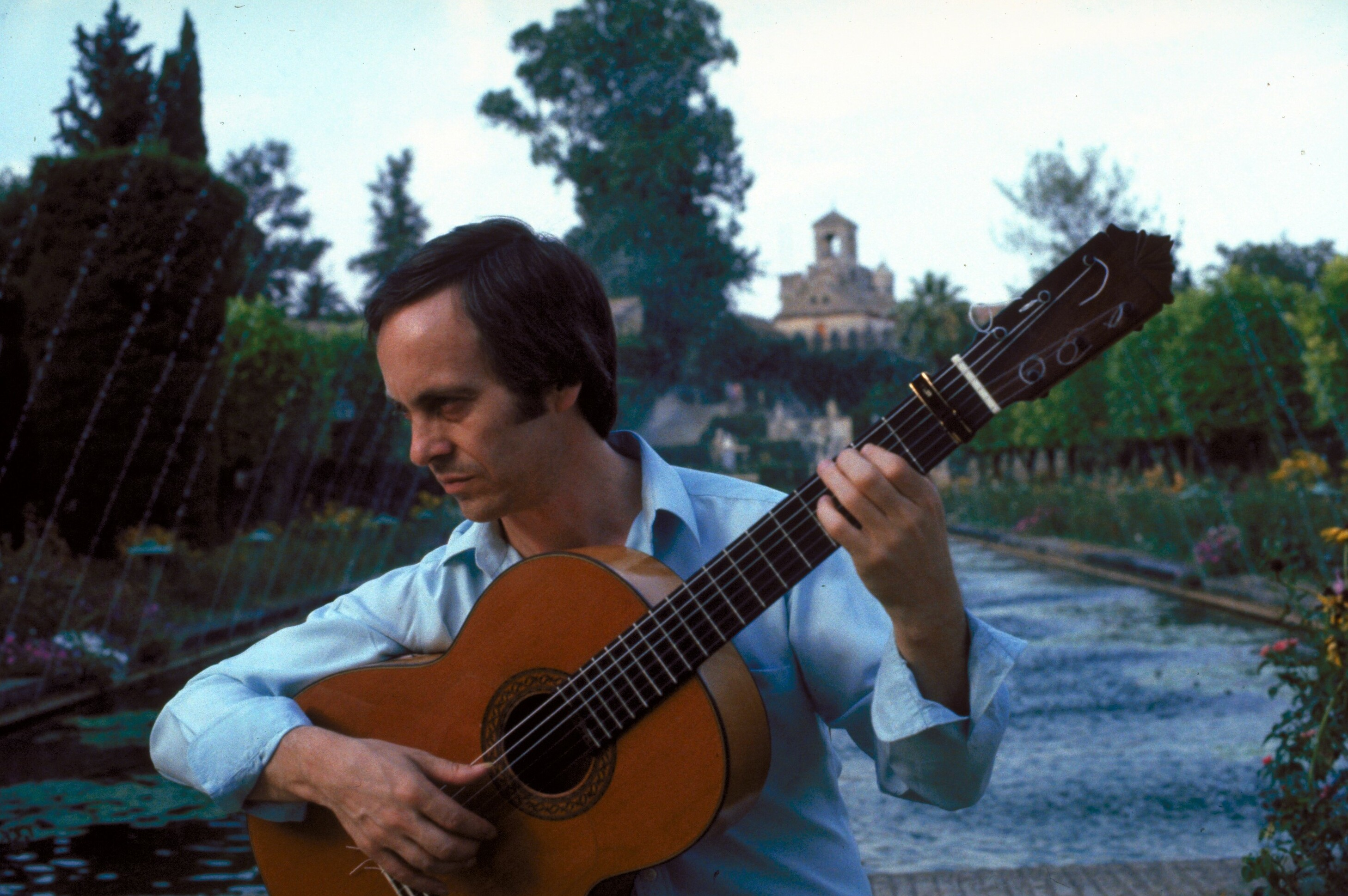 Paco Peña in the Alcázar de los Reyes Cristianos in Córdoba, 1984. Photo by Paul Magnussen.